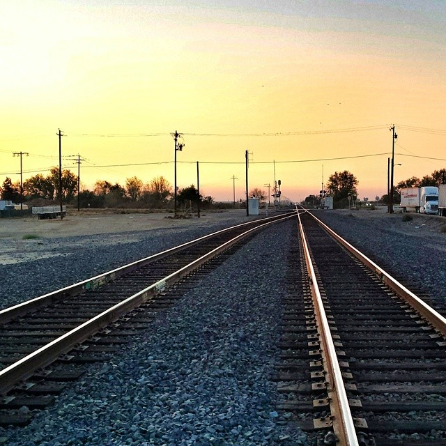 Railroad tracks running through Chowchilla, California.